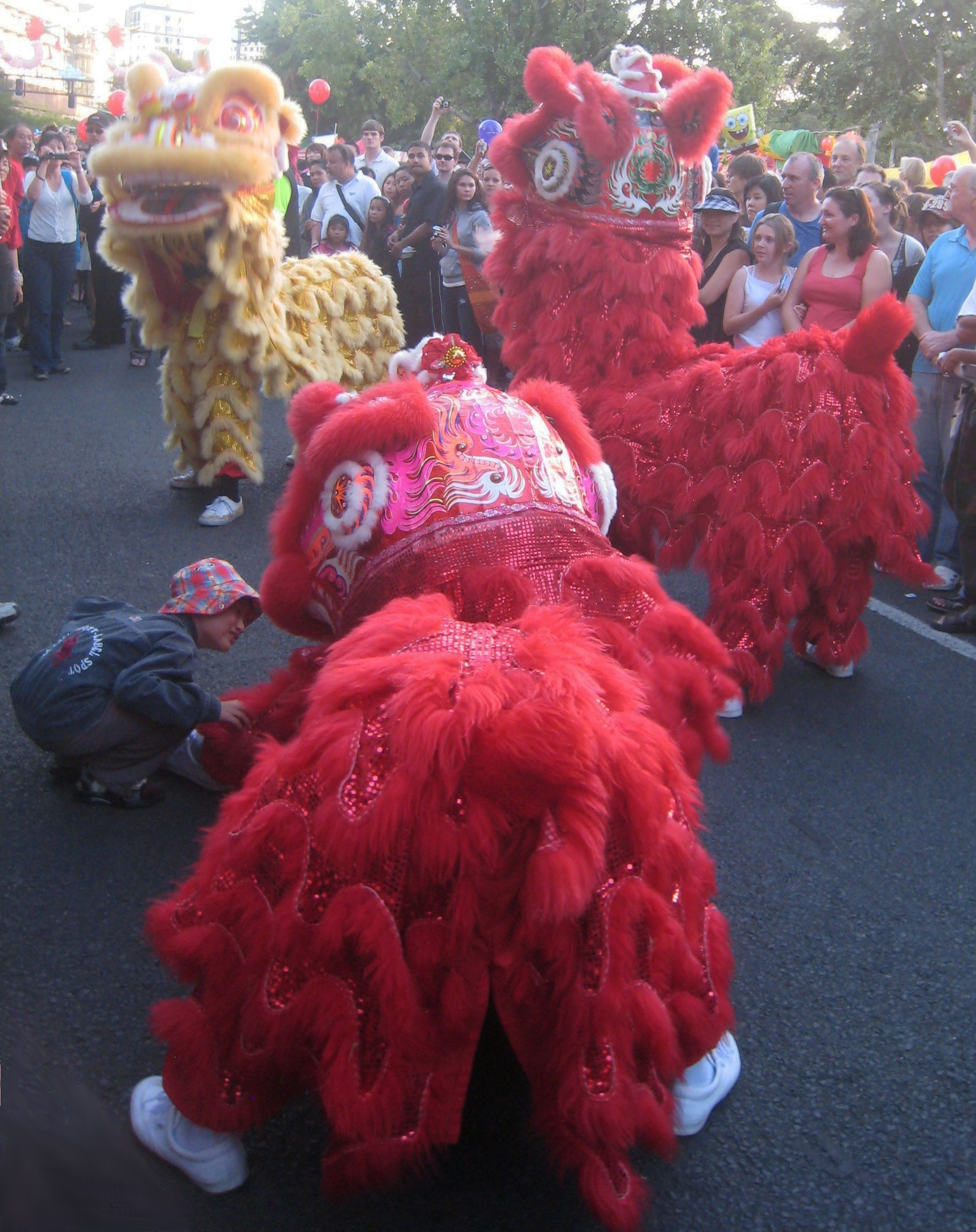 Lion dancers surrounded by onlookers at the Auckland lantern festival. A child peers inside one lion's costume.